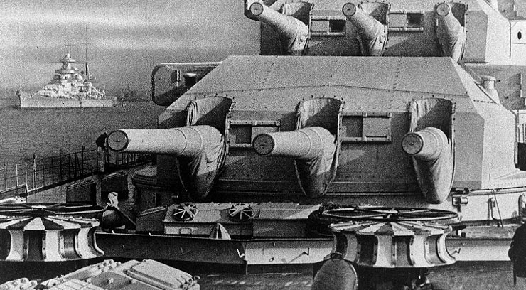 (German Battleship, 1938) View of the ship's forward two triple 283mm (11) gun turrets, with forecastle and capstans in the foreground, circa later 1939 or 1940. The battleship Scharnhorst is in the left distance. She has been refitted with a clipper bow. Fine screen halftone reproduction, published in the contemporary German booklet Deutsche Seemacht. U.S. Naval History and Heritage Command Photograph.